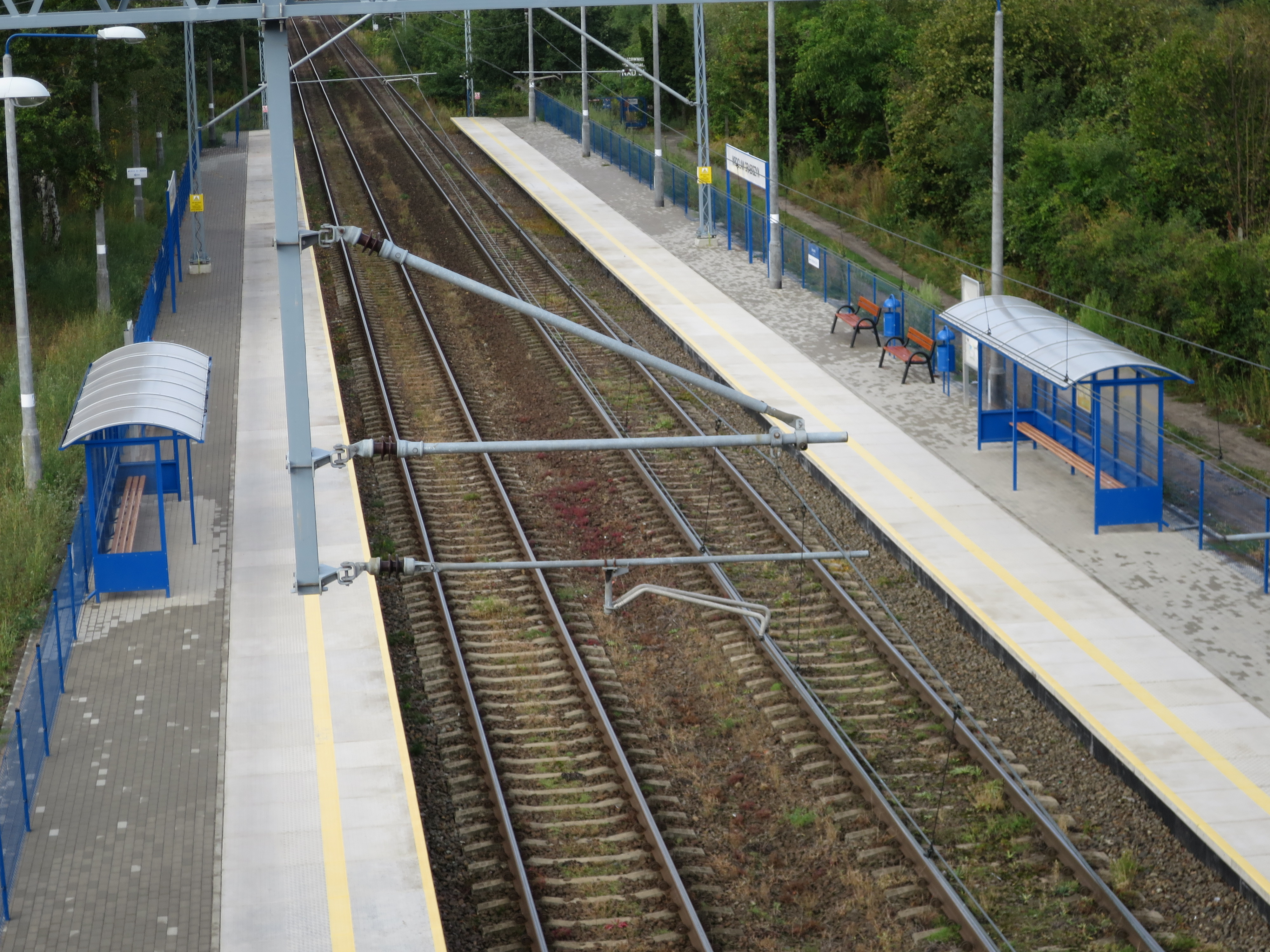 Wrocław Grabiszyn This photo was taken during Railway Wikiexpedition 2015 set up by Wikimedia Polska Association in cooperation with Fundacja Grupy PKP.You can see all photographs in category Wikiekspedycja kolejowa 2015.